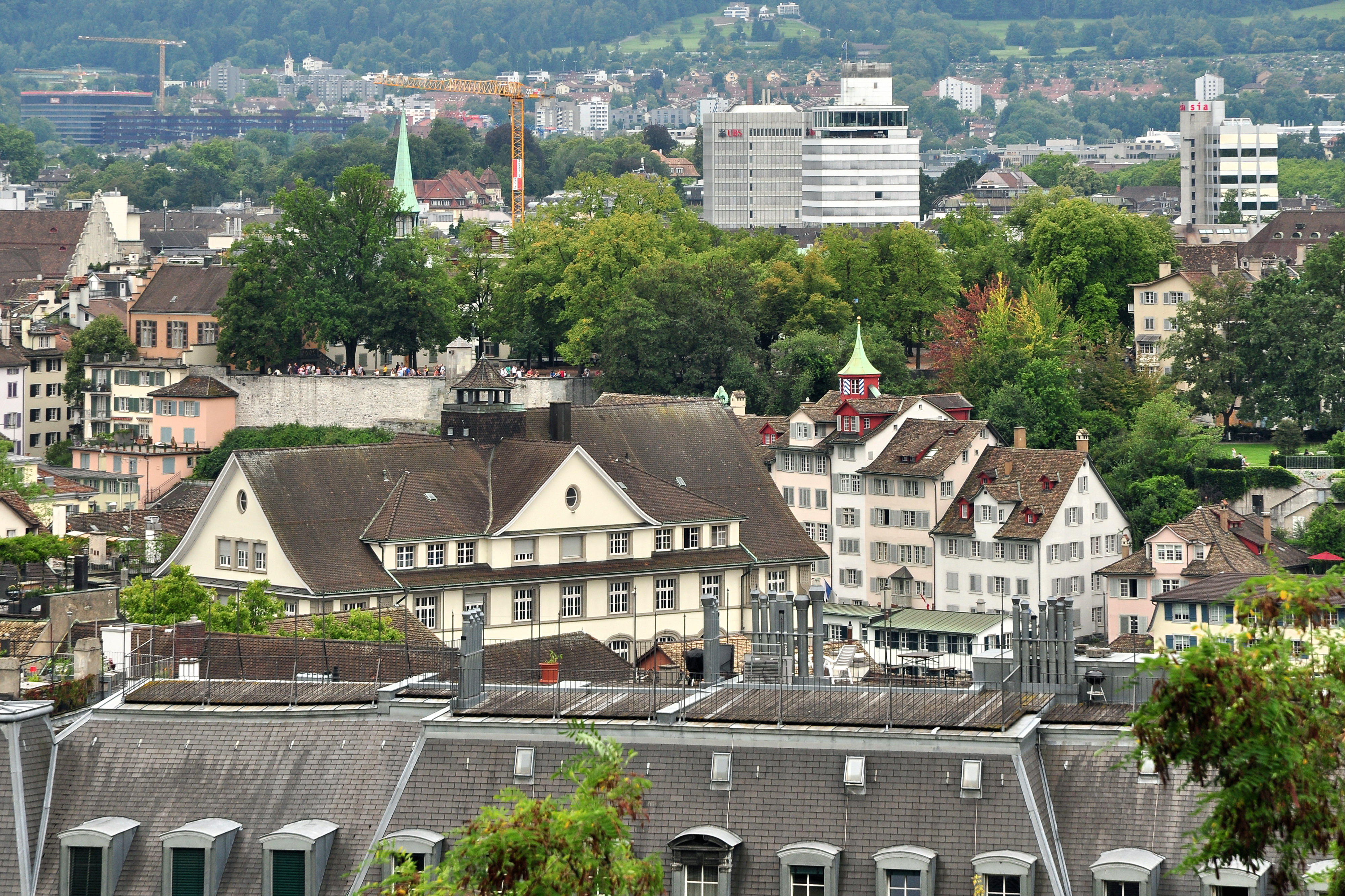 Lindenhof hill and Schipfe in Zürich (Switzerland), Friesenberg district in the background, as seen from the main building of the Swiss Federal Technical University (ETH Zürich).